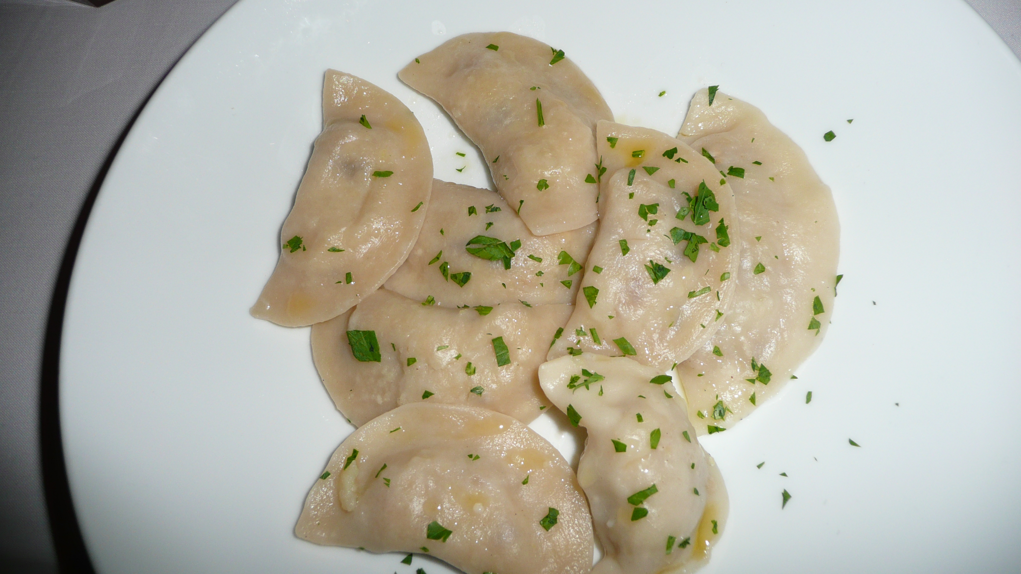 Vareniki in St. Petersburg, filled with potatoes and mushrooms